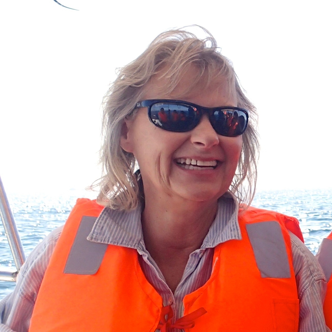 Susan Williams (left) and Rohani Ambo Rappe (middle) on a research boat in Sulawesi, Indonesia